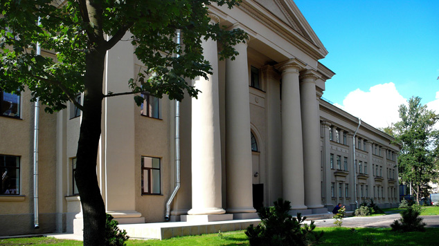 школа 140